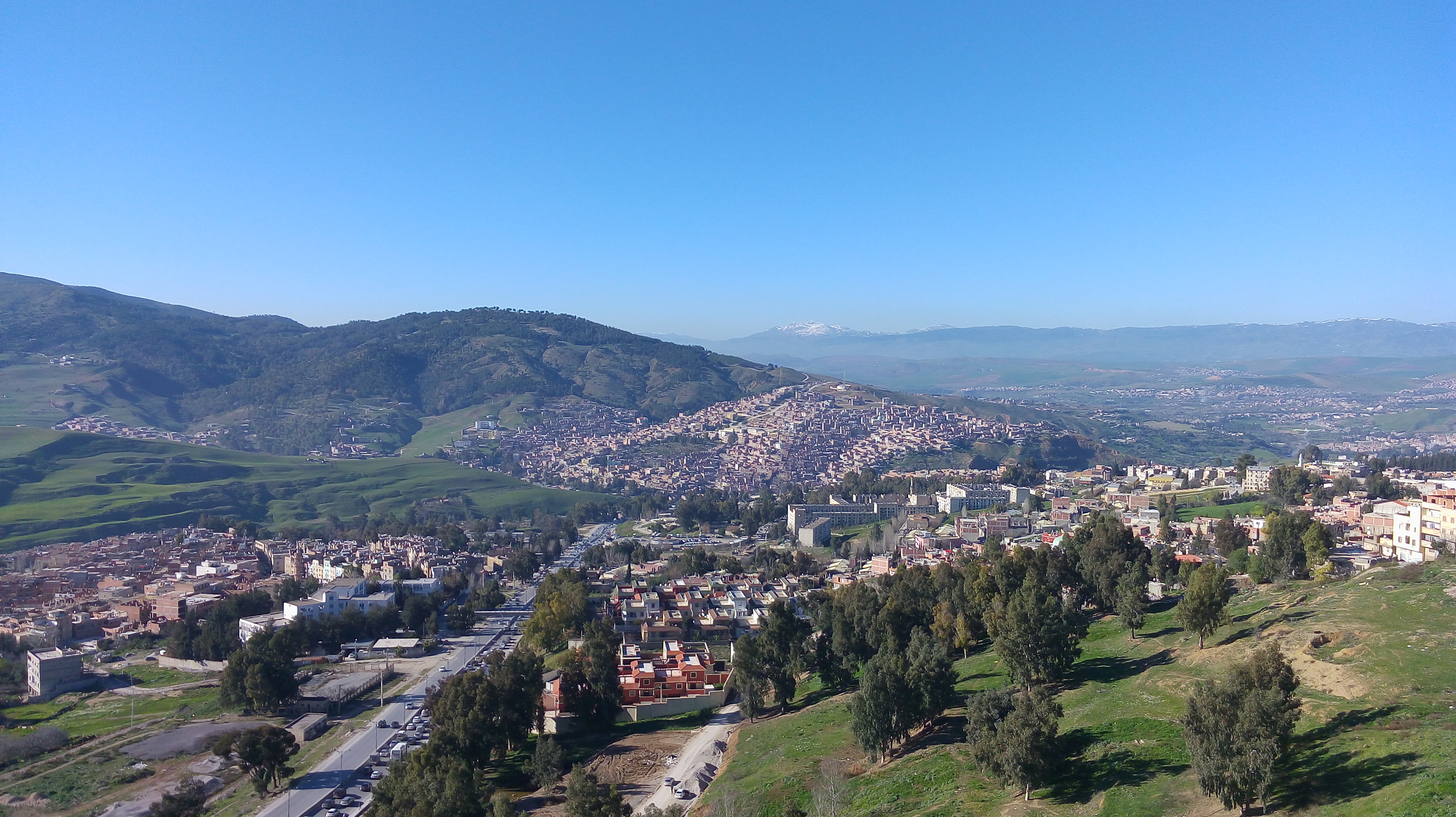 This is an image with the theme "Play" from: Algeria